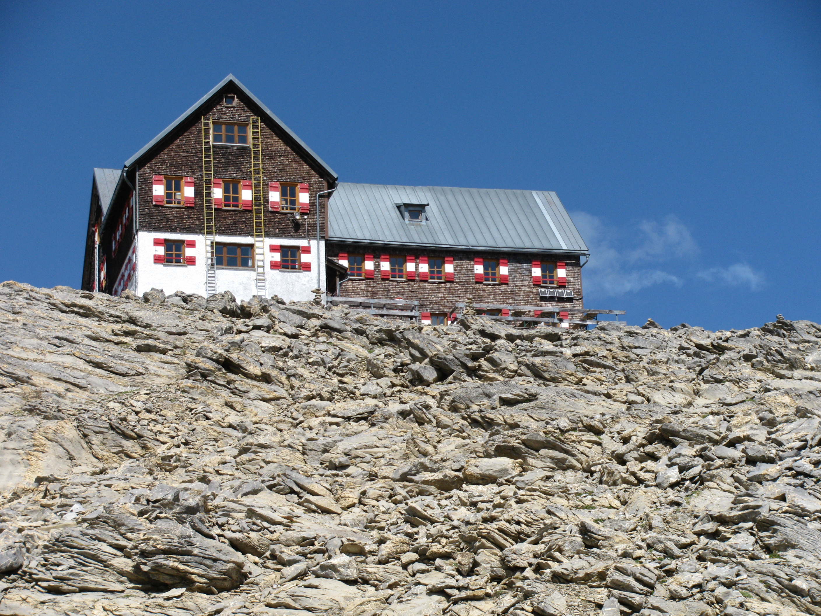 Austria - Vorarlberg: "Mannheimer Hütte"